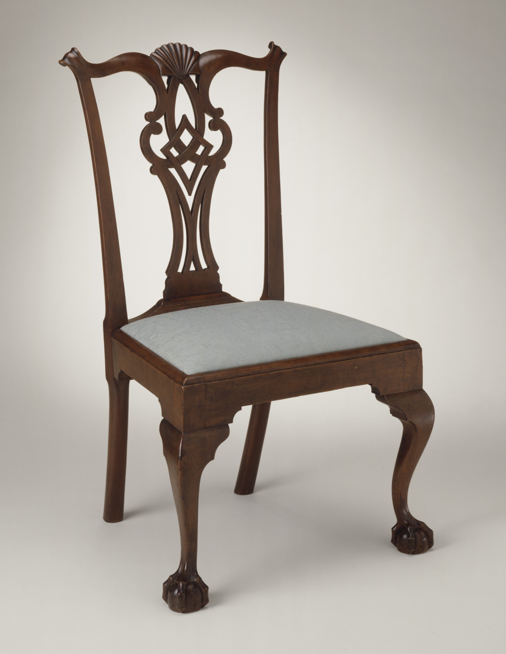 United States, Connecticut, East Windsor, circa 1780 Furnishings; Furniture Mahogany-stained cherry, upholstery (replaced) Col. and Mrs. George J. Denis Fund (53.15.4) Decorative Arts and Design Currently on public view: Art of the Americas Building, floor 3